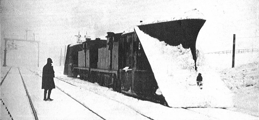 British Snow-ploughs at Work between Darlington and Tebay, Westmorland The route crosses Stainmore Summit (1369 ft. above the sea) Photo: LNER